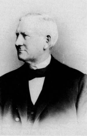 Robert Ruscheweyh